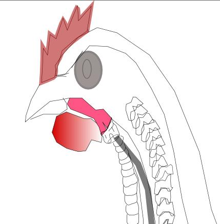 For Shehita (Kosher slaughter of chicken)